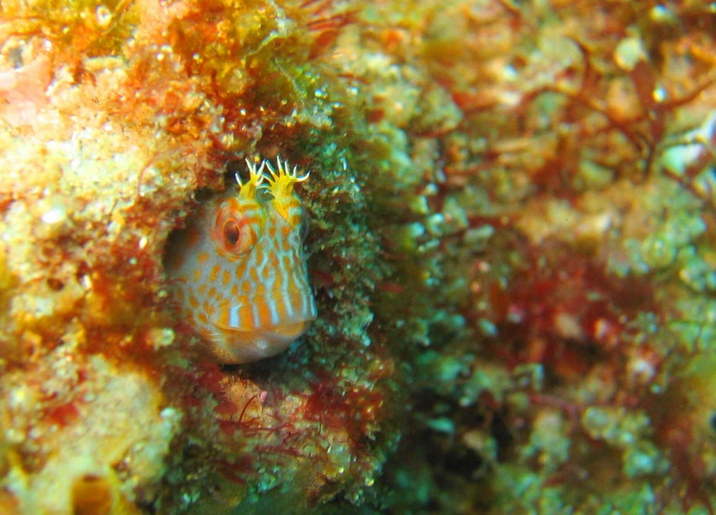 A Horned Blenny (Parablennius intermedius) in a tube worm tunnel. Green Island, South West Rocks, NSW